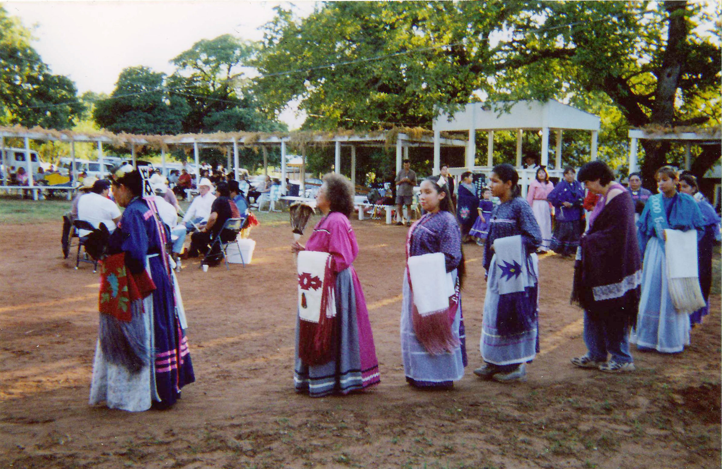 Caddo turkey dance, outdoor dance arena at the Caddo National Complex, Binger, Oklahoma